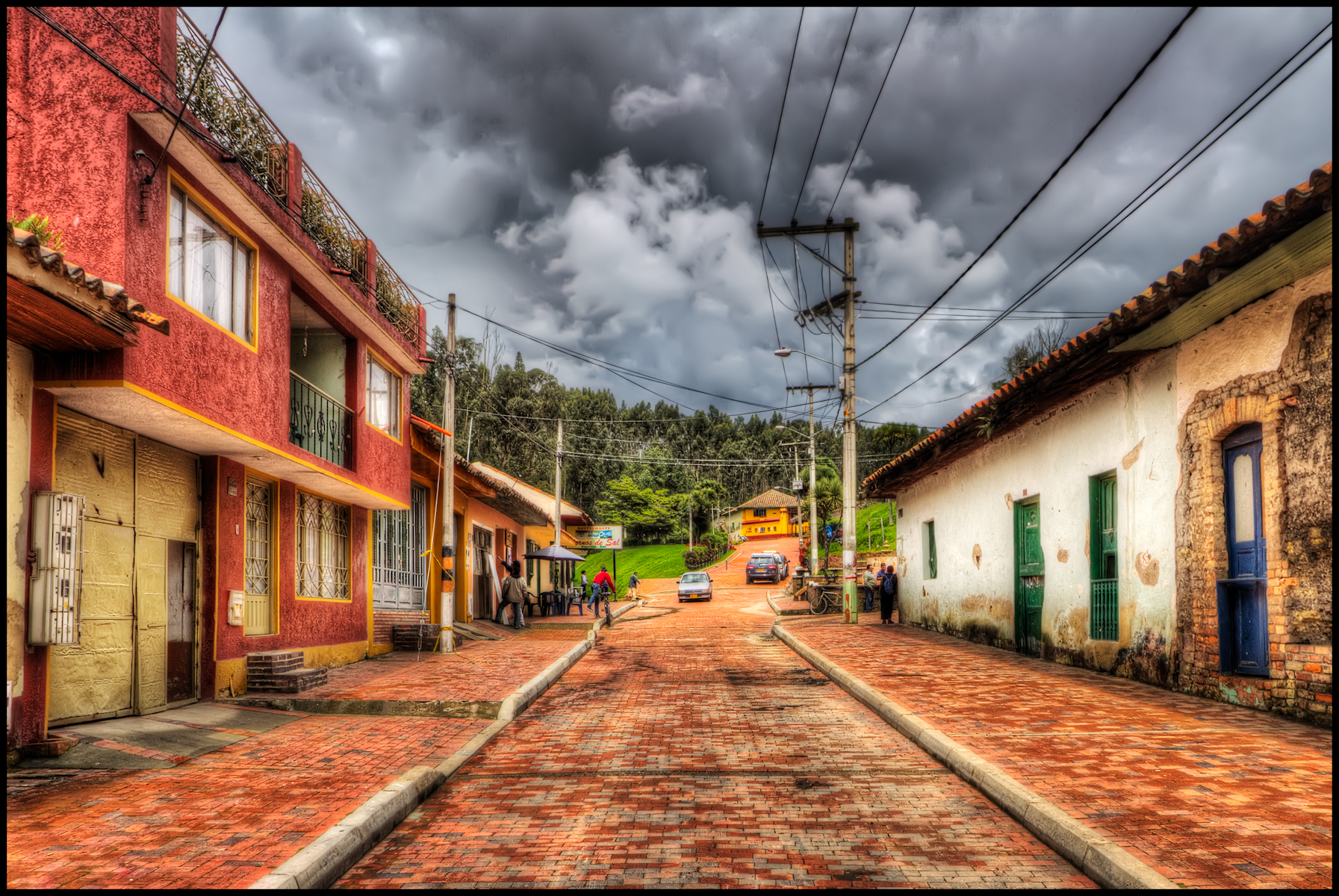 Nemocon is a small town in the outskirts of Bogota. It is known for its salt mines and the nice museum inside the mine. The yellow building at the end of the street is the entrance to the salt mine. We visited during a week day so there were very few people around. It made for a really pleasant photo visit to the mine, but only one restaurant was open in the town. ISO 100, f13, (1/80, 1/320, 1/20) on tripod. HDR processed uisng Photomatix and tonemapped with Details Enhancer. Imagenomic Noiseware and PS Smart Sharpen. Used Nik Color Efex Low Key filter to add some glow and contrast to the colors and then used Curves to liven it back again. Nik Viveza to liven the white wall, and dodge and burn to add interest to doors and windows. Nik Viveza on the sky to warm it and brighten it a bit.